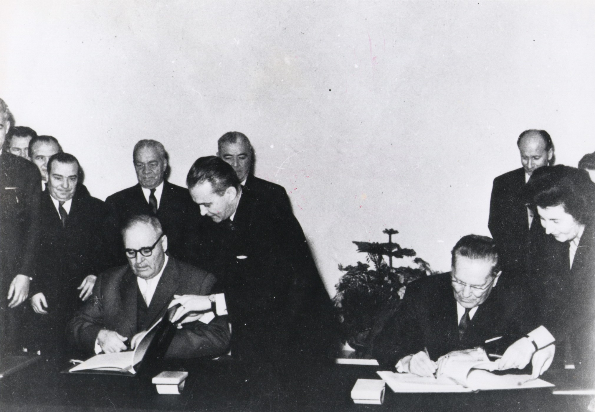 The Agreement on the Construction of the System Djerdap Josip Broz Tito, the president of the SFRJ and Georgi Georgi Dež, president of the National Council of the Republic of Romania, were signed on november 30, 1963.